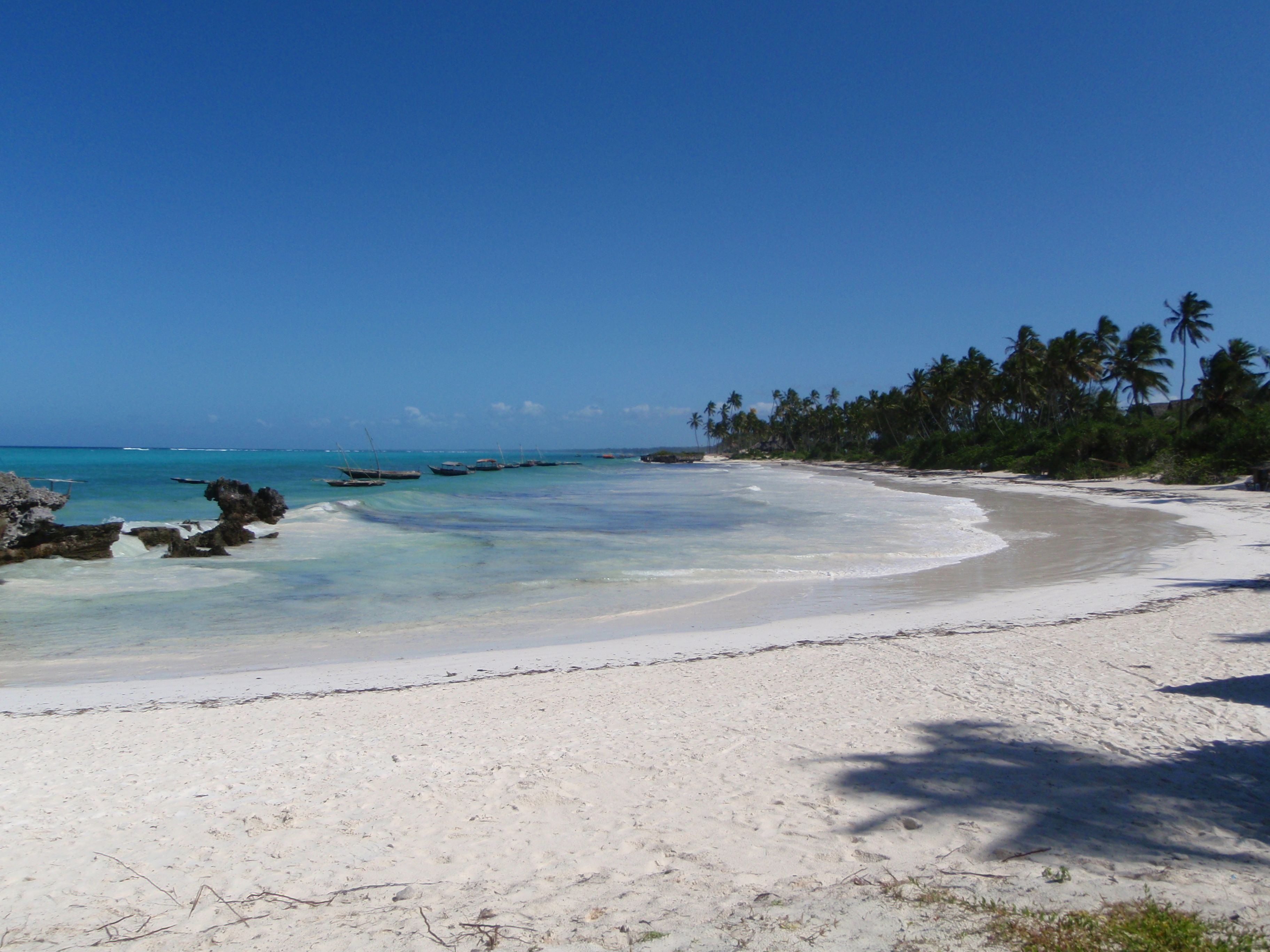 Beach at Matemwe — in the Unguja North Region of Unguja island (Zanzibar Island), Indian Ocean, Tanzania.